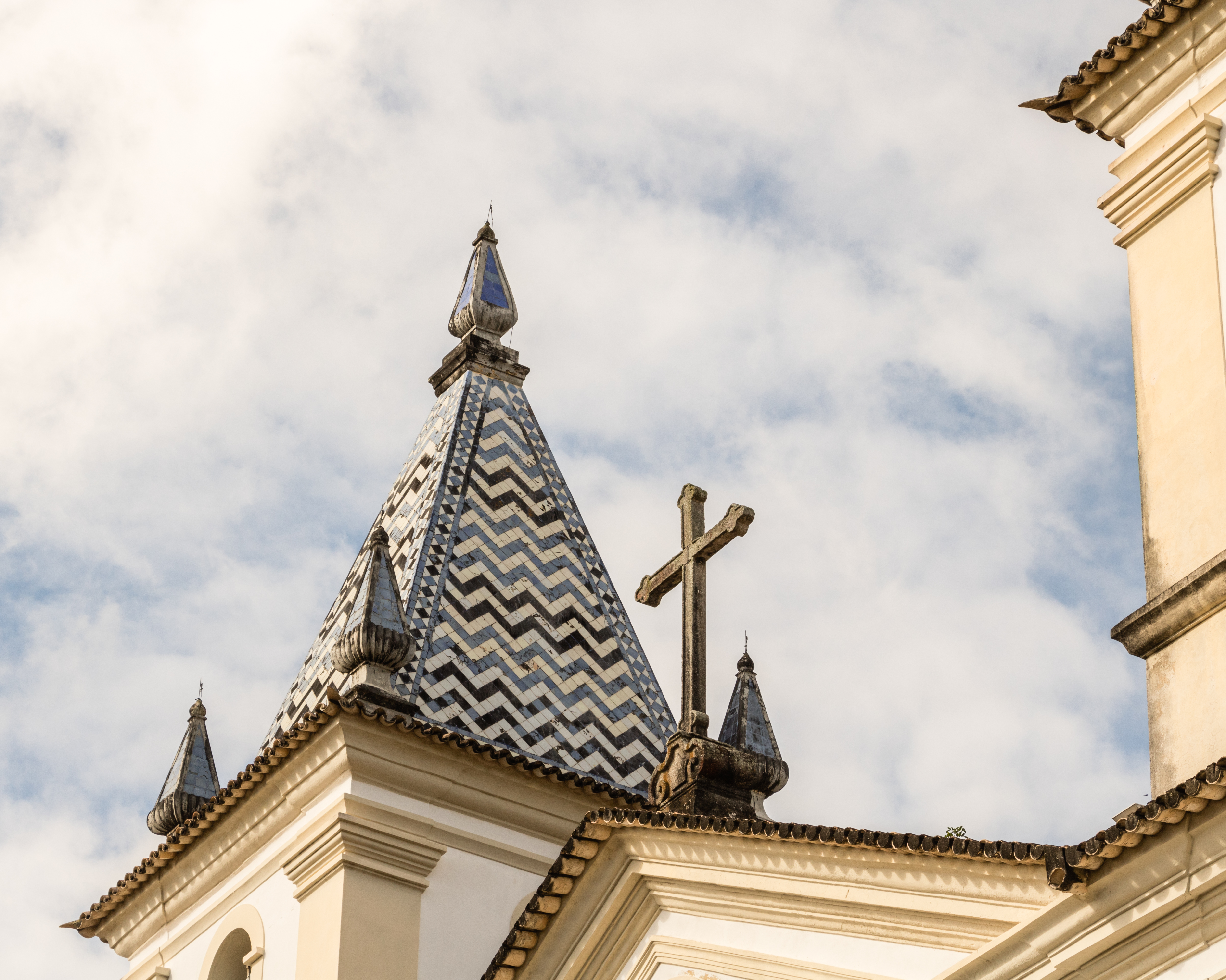 Pyramid above bell tower, Igreja Matriz de Nossa Senhora do Rosário, Cachoeira, Bahia, Brazil.